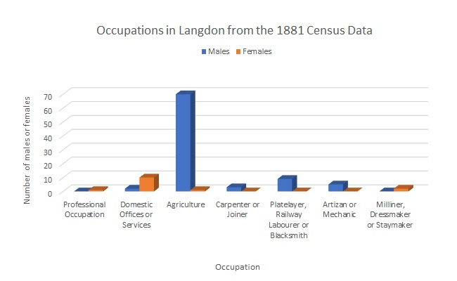 Occupation of males and females in Langdon from the 1881 census data.